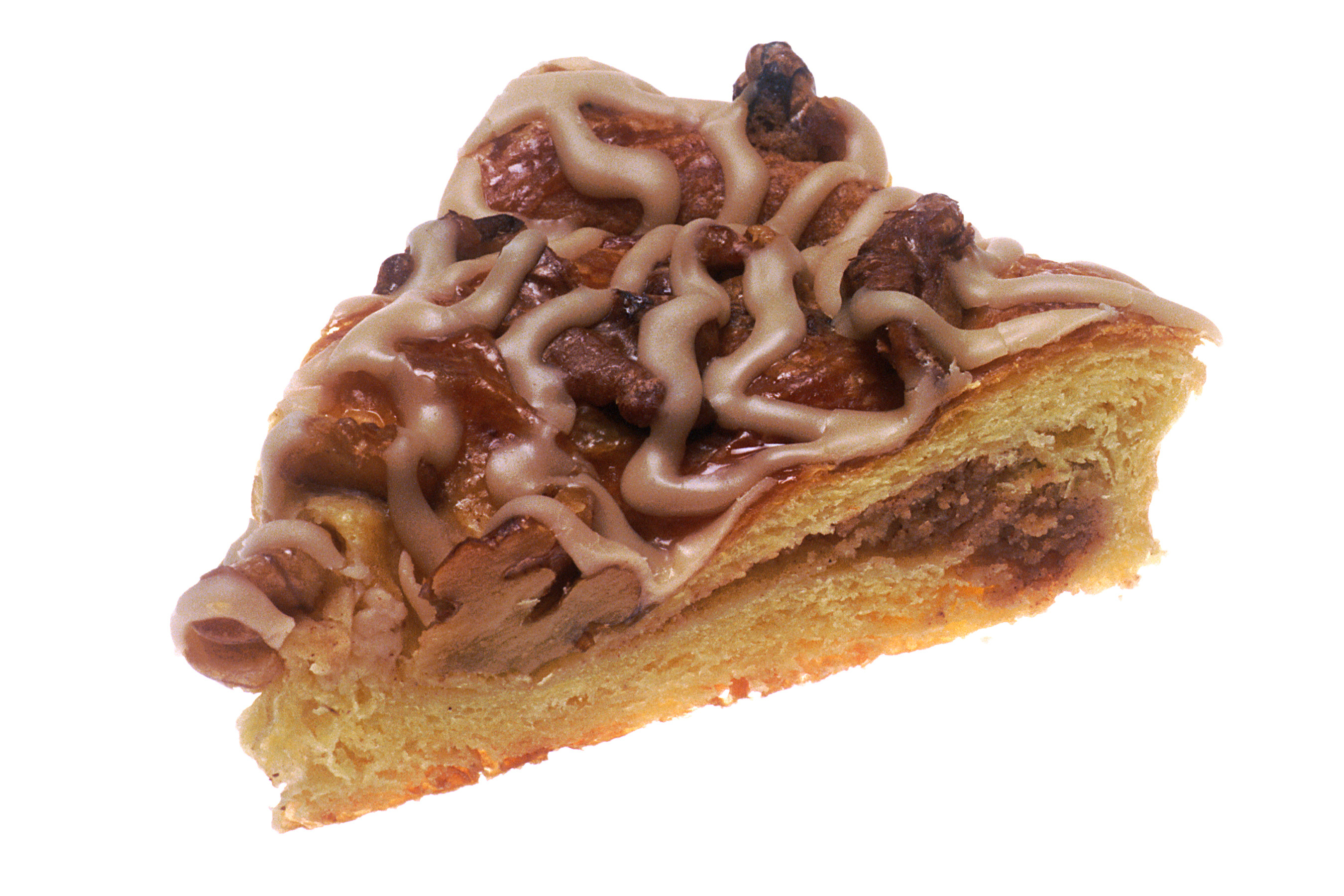 Title Danish Description A single slice of apple crumb danish. Topics/Categories Food and Drink Type Color, Photo Source National Cancer Institute